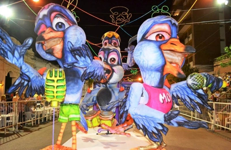 Gran Carroza